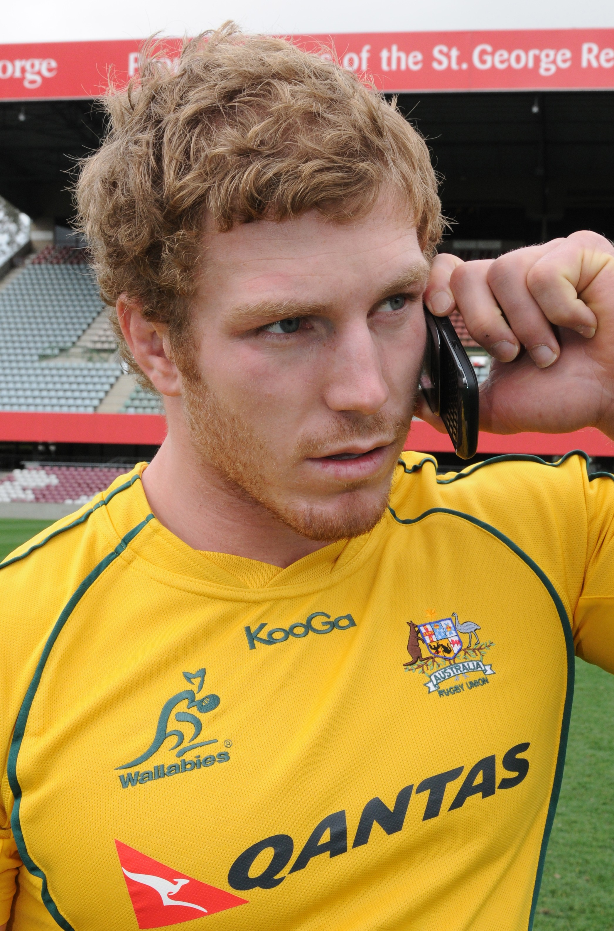 David Pocock using the BlackBerry Torch 9800.